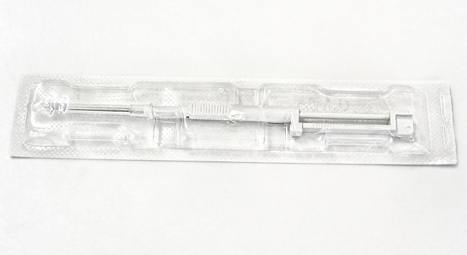 Implanon or etonogestrel implantation for birthcontrol